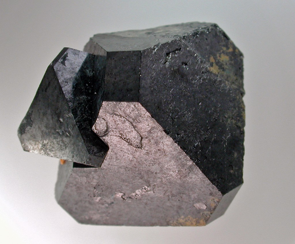 Perovskite, variety "Dysanalite" (niobium-rich), 1.6 x 1.5 x 1.4 cm - Locality: Perovskite Hill, Magnet Cove, Hot Spring County, Arkansas, USA